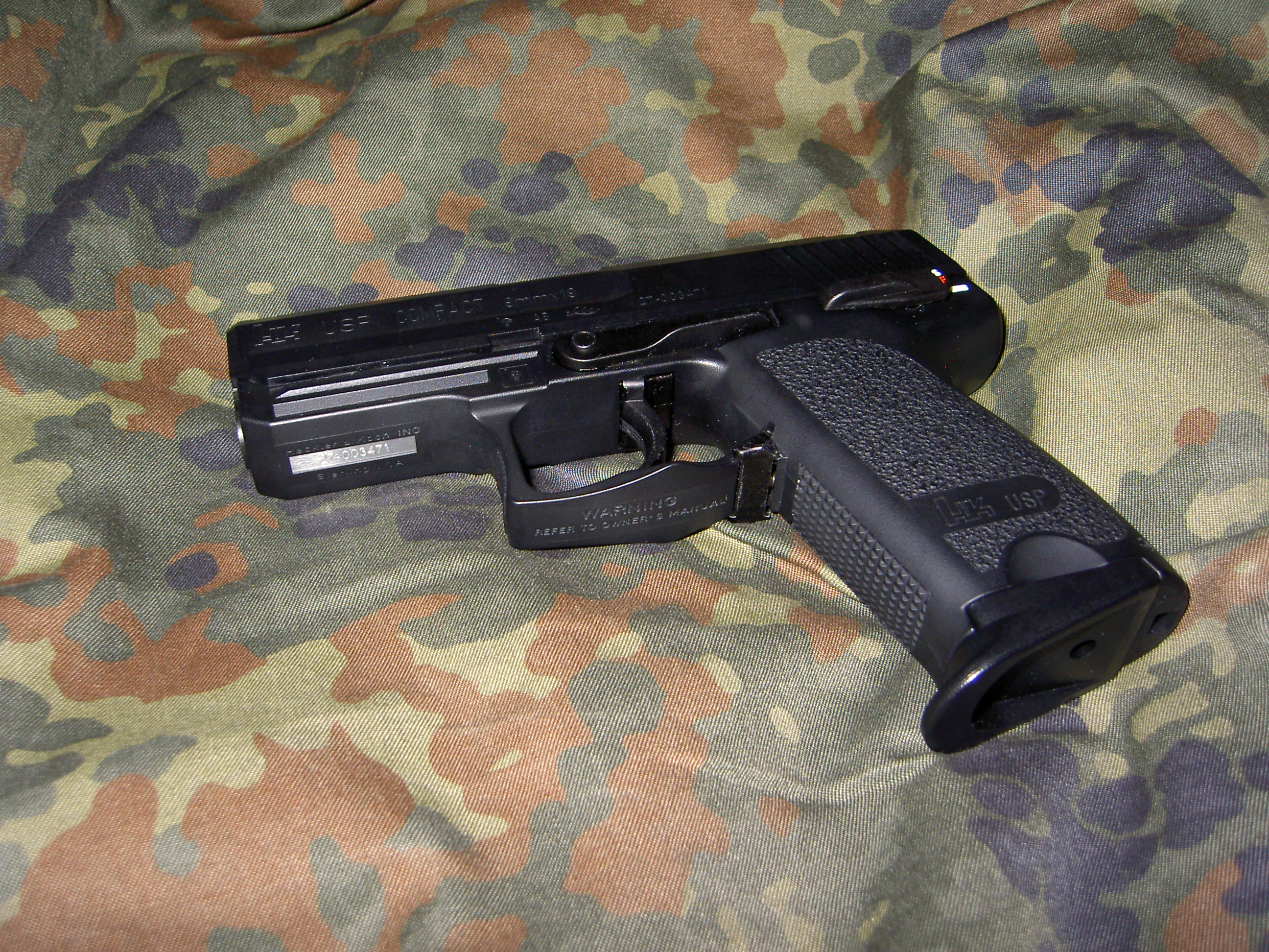 Gas blowback USP Compact airsoft gun on a flecktarn background